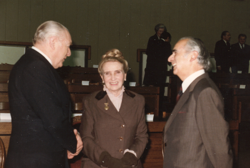 Sergio Onofre Jarpa, Mity de Gonzalez Videla y William Thayer.